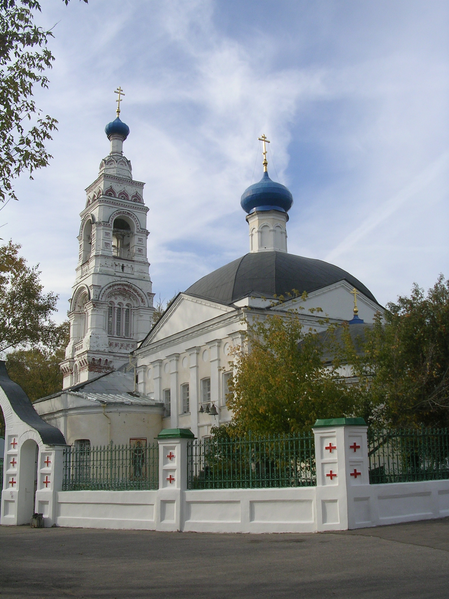 Protection of the Theotokos in Kudinovo, Noginsk district of Moscow region.